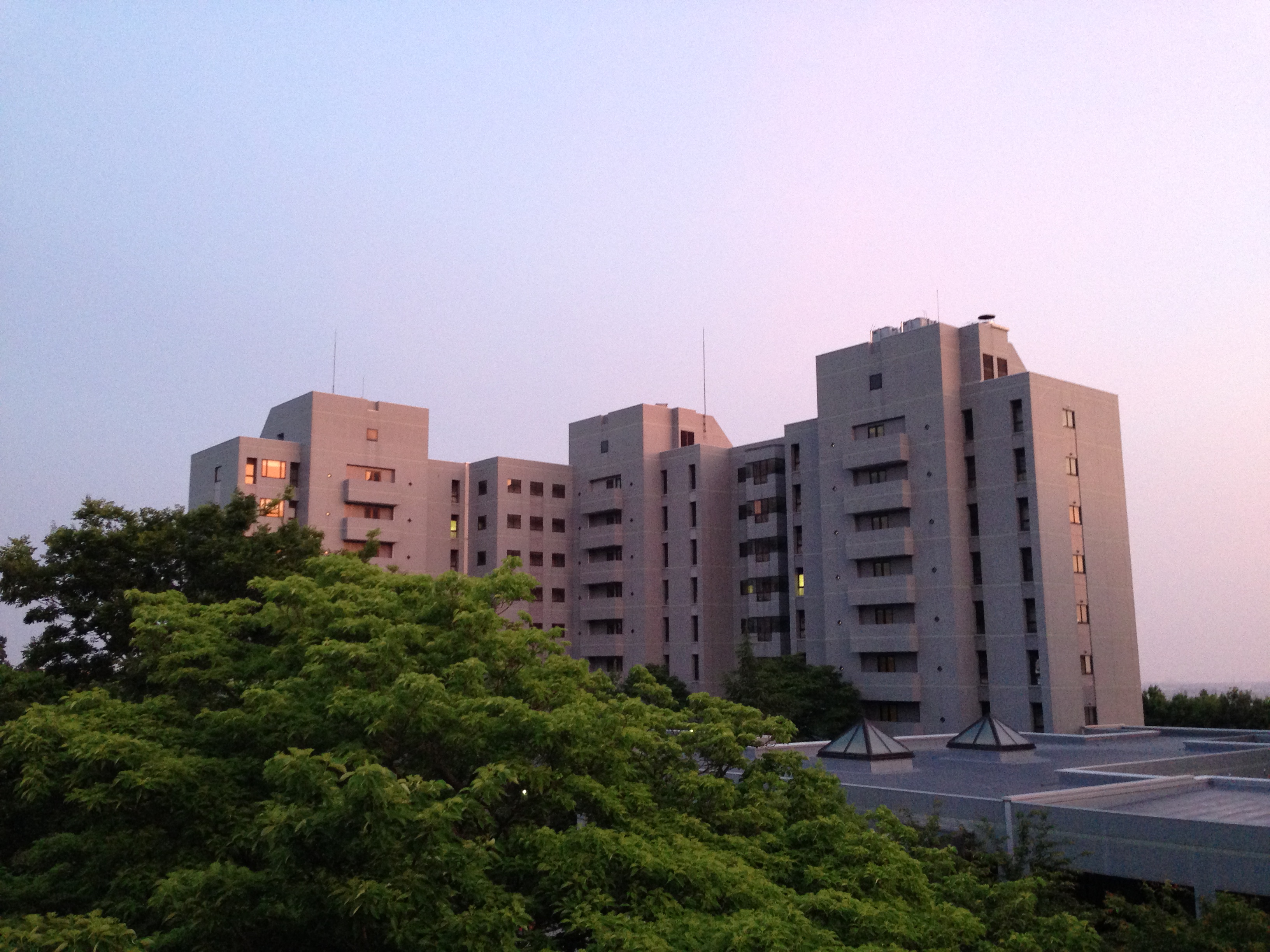 Overview